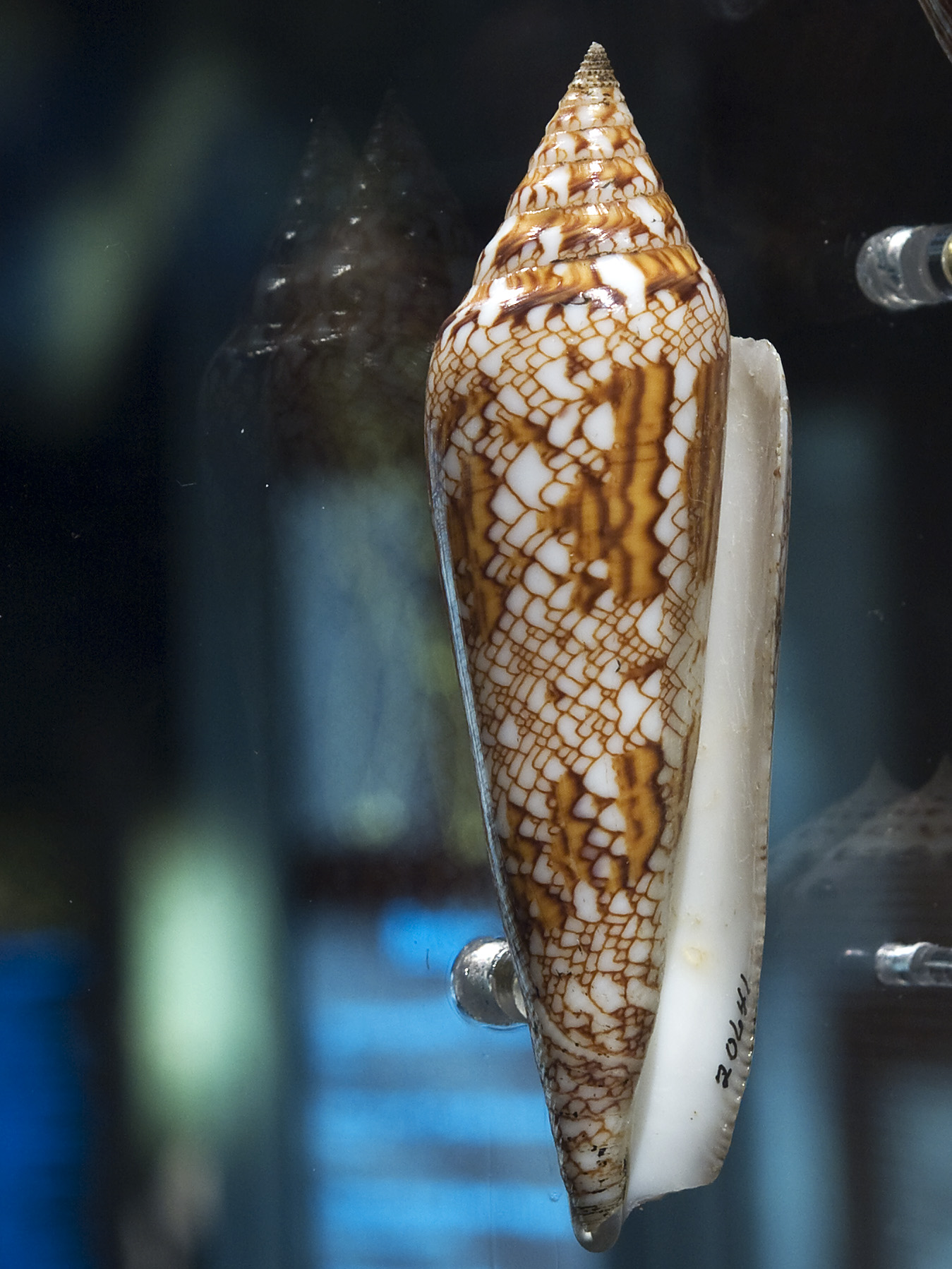 20641 Conus milneedwardsi (Glory-of-India) Mozambique HMNS 28280 Wikipedia Loves Art at the Houston Museum of Natural Science This photo of item # 20641 at the Houston Museum of Natural Science was contributed under the team name "Assignment_Houston_One" as part of the Wikipedia Loves Art project in February 2009. Houston Museum of Natural Science The original photograph on Flickr was taken by skarsol—please add a comment to the original Flickr page whenever a use has been made on Wikipedia or another project. Project galleries on Flickr: this institution, this team